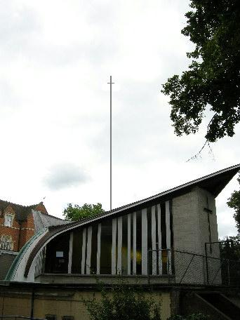 North-west elevation of Church Army Chapel, Blackheath, London, England. The spire is now missing, but has been drawn onto the photograph to give a rough idea of what it once looked like. The chapel is built onto a hollow platform or undercroft. The north vertical side of the platform (seen at the bottom of the picture) was invisible in the original 1965 design, as there was a grass slope down from the platform to the quadrangle (which has now been built on).